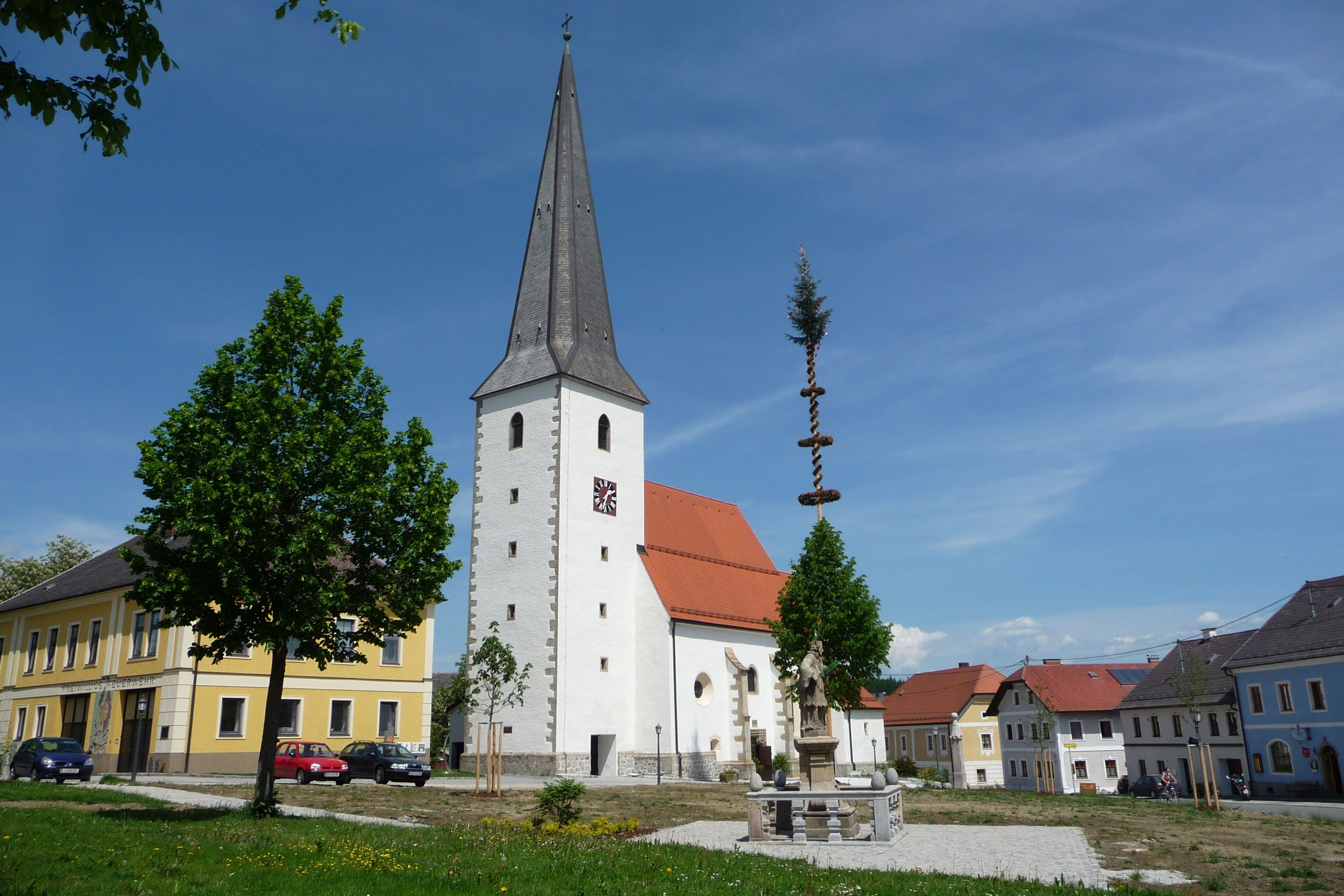 Parish Church Schenkenfelden